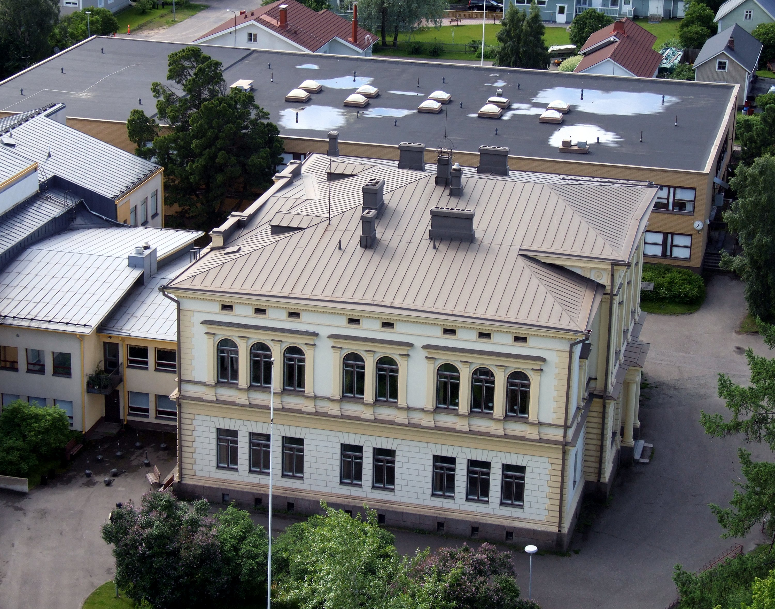 Raahen Porvari- ja Kauppakoulu is a business and and information technology school in Raahe, Finland. The building has been designed by architect Sebastian Gripenberg and it was completed in 1891.